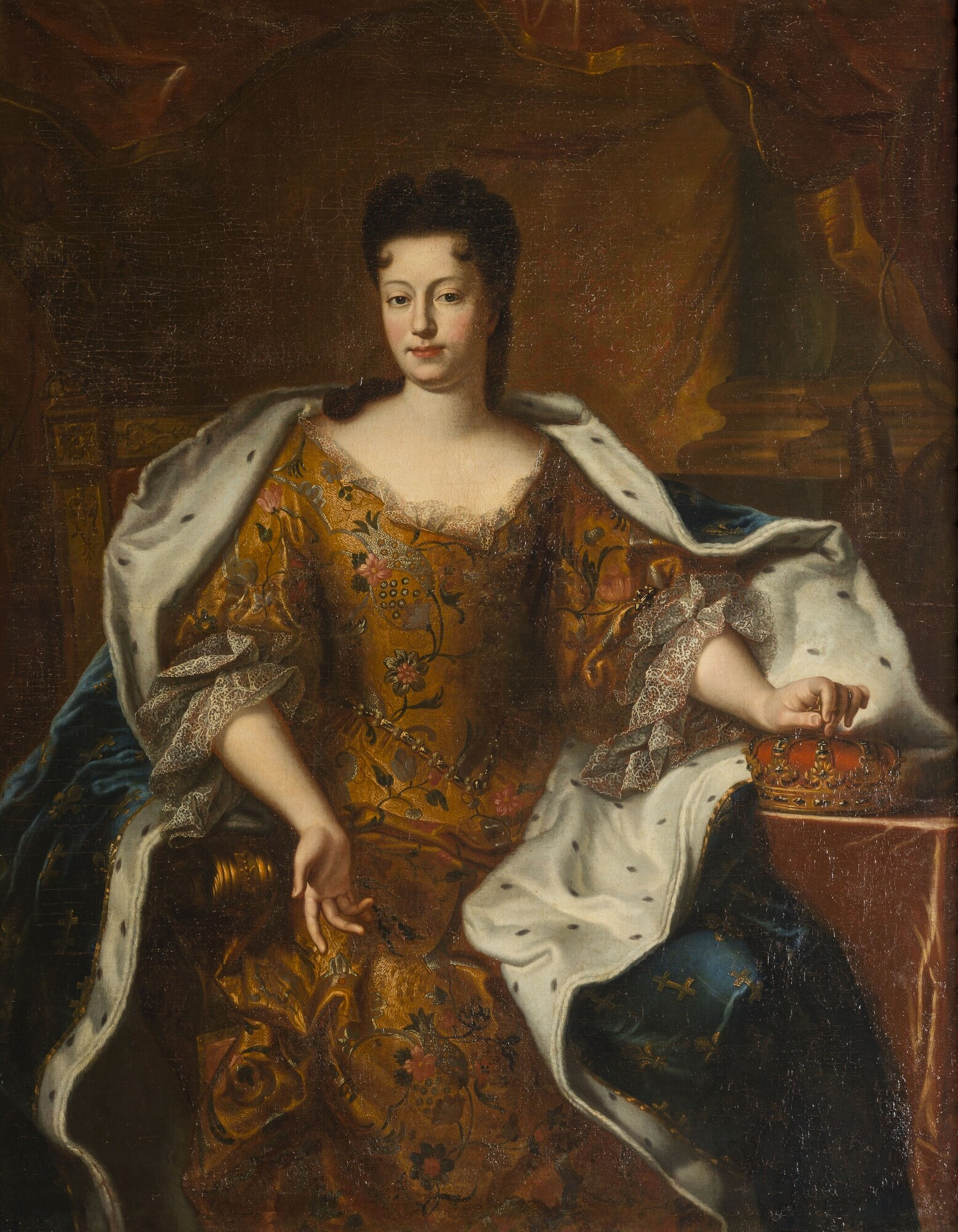 Portrait of Charlotte-Elisabeth d'Orleans (1676-1744), Duchess of Lorraine, daughter of the Palatine.